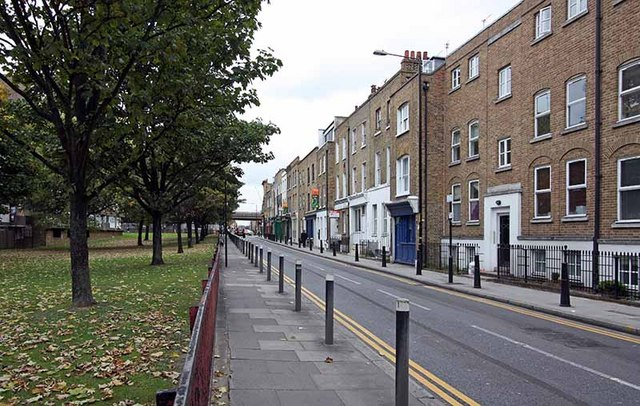 Cannon Street Road, London E1